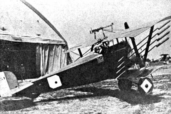 WW1 Nieuport 16 fighter with air to air rockets for attack on balloons. The pilot is Charles Chouteau Johnson.